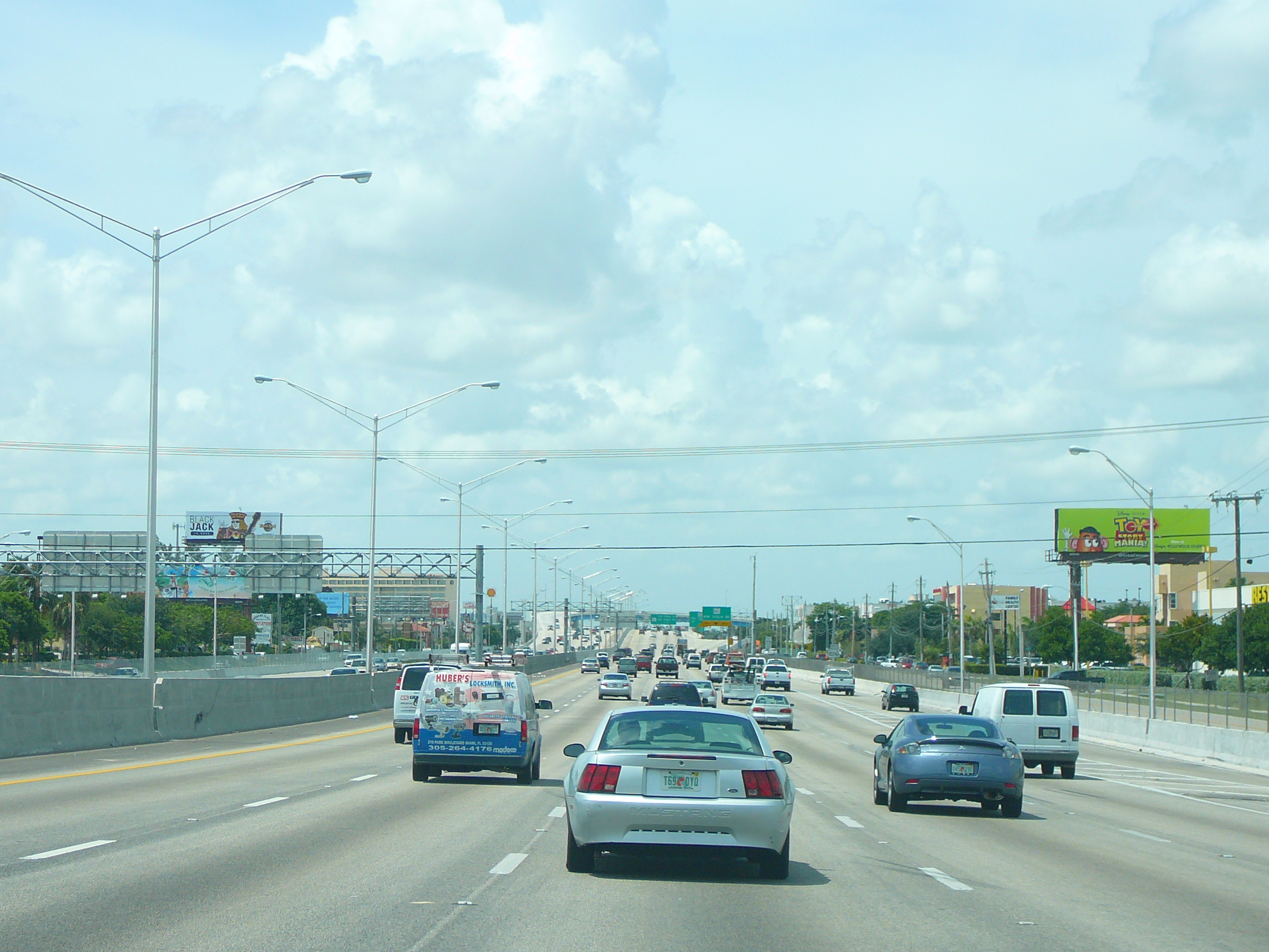 Digital photo taken by Marc Averette. View of the Palmetto Expressway in Greater Miami, Florida northbound near NW 103rd St in Hialeah, Florida 7/10/2008.